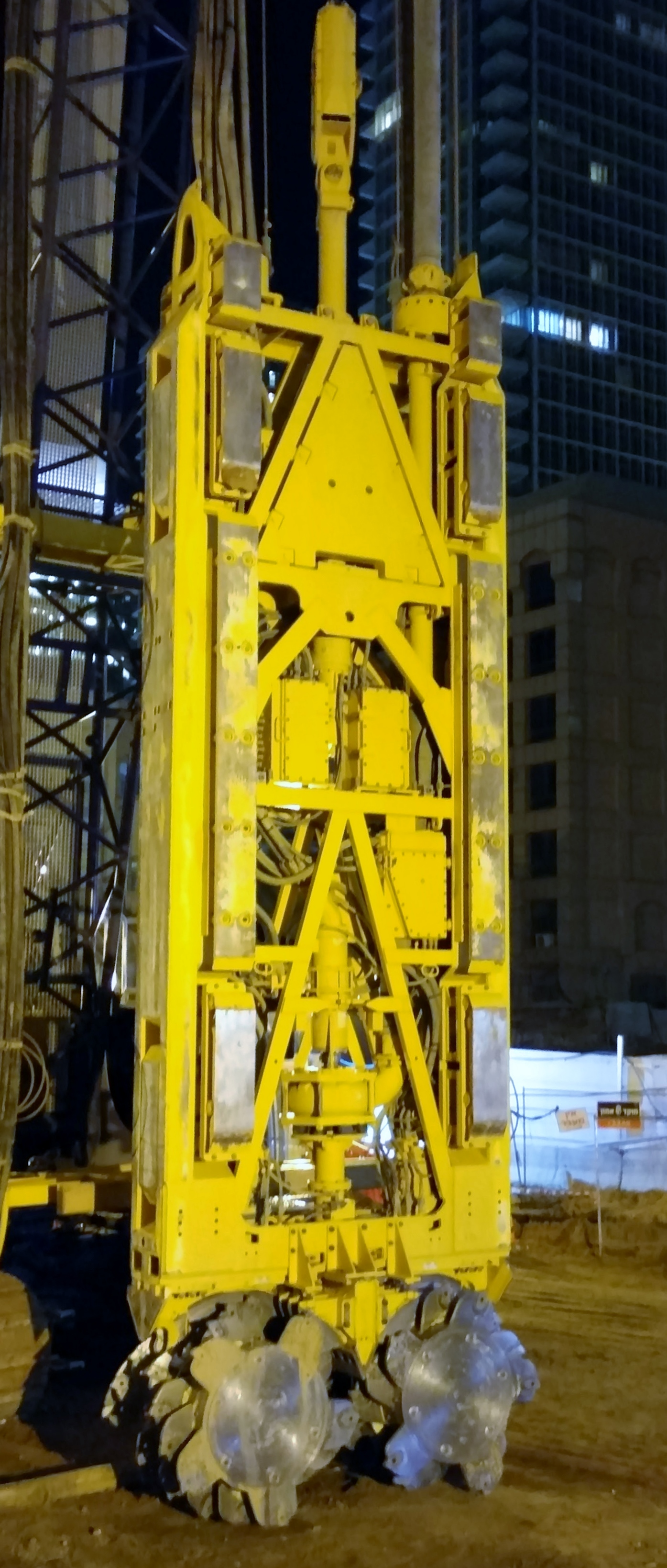 Bauer trench cutter, Hydromill, building slurry walls at Tel Aviv light train Allenby station, 2016